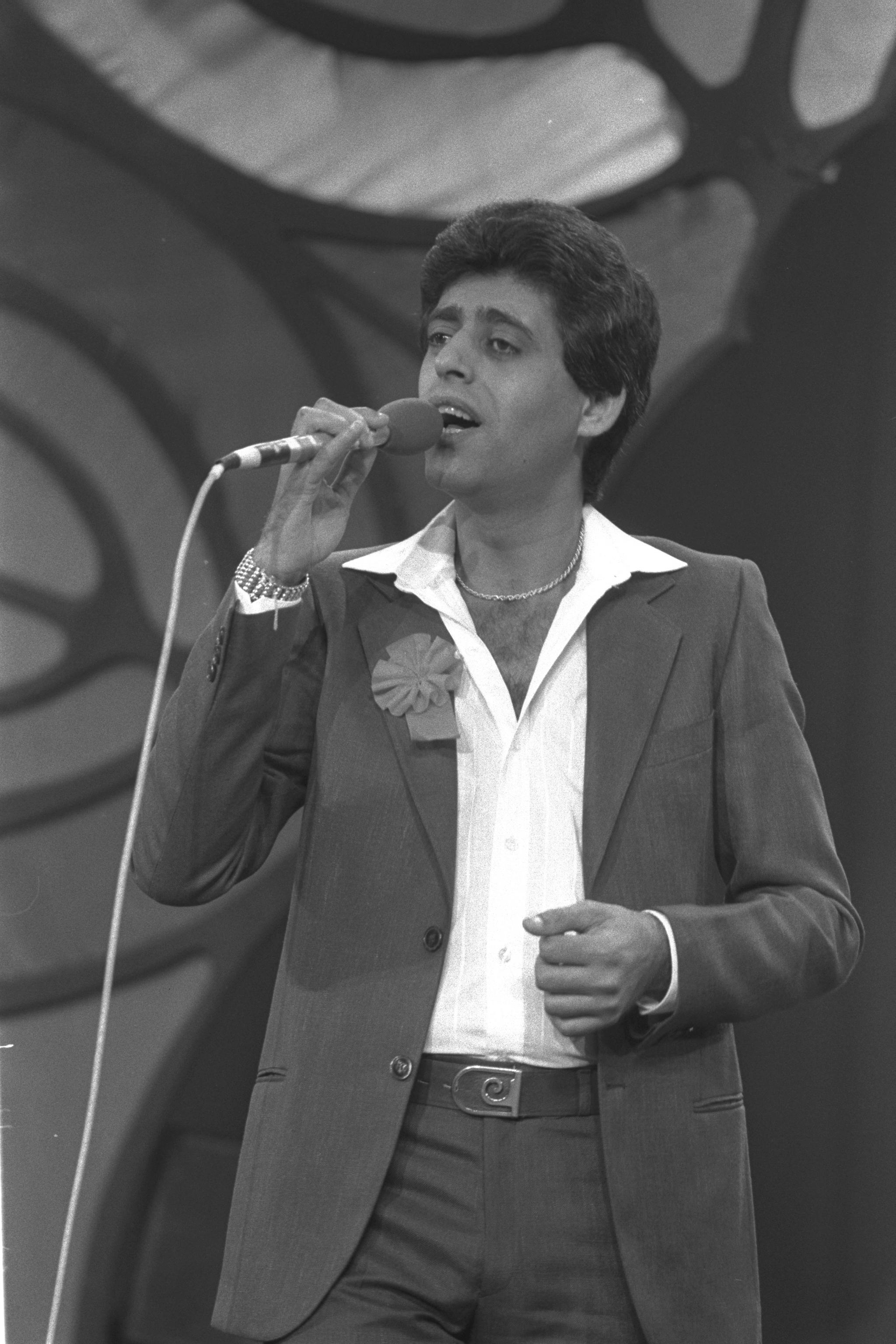 Singer Shimi Tavori performing at the Teletrom. שימי תבורי בערב התרמה בתל אביב Photo: Yaakov Saar (1951–) Alternative names SA'AR YA'ACOV; Jacob Saar; Saʻar, YaʻaḳovDescriptionIsraeli photographerDate of birth 1951 Authority control : Q28751896 VIAF: 298161188 NLI: 001394176 creator QS:P170,Q28751896 , 04/13/1981